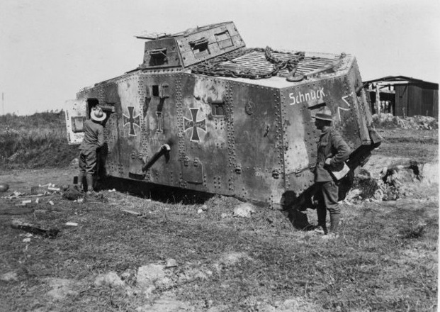 New Zealand soldiers examining a German tank nicknamed "Schnuck", captured by New Zealand forces on the Western Front. Photograph taken 8 September 1918 by Henry Armytage Sanders